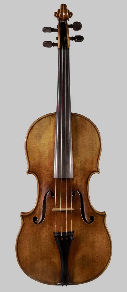 Italian (Cremona); Violin; Chordophone-Lute-bowed-unfretted